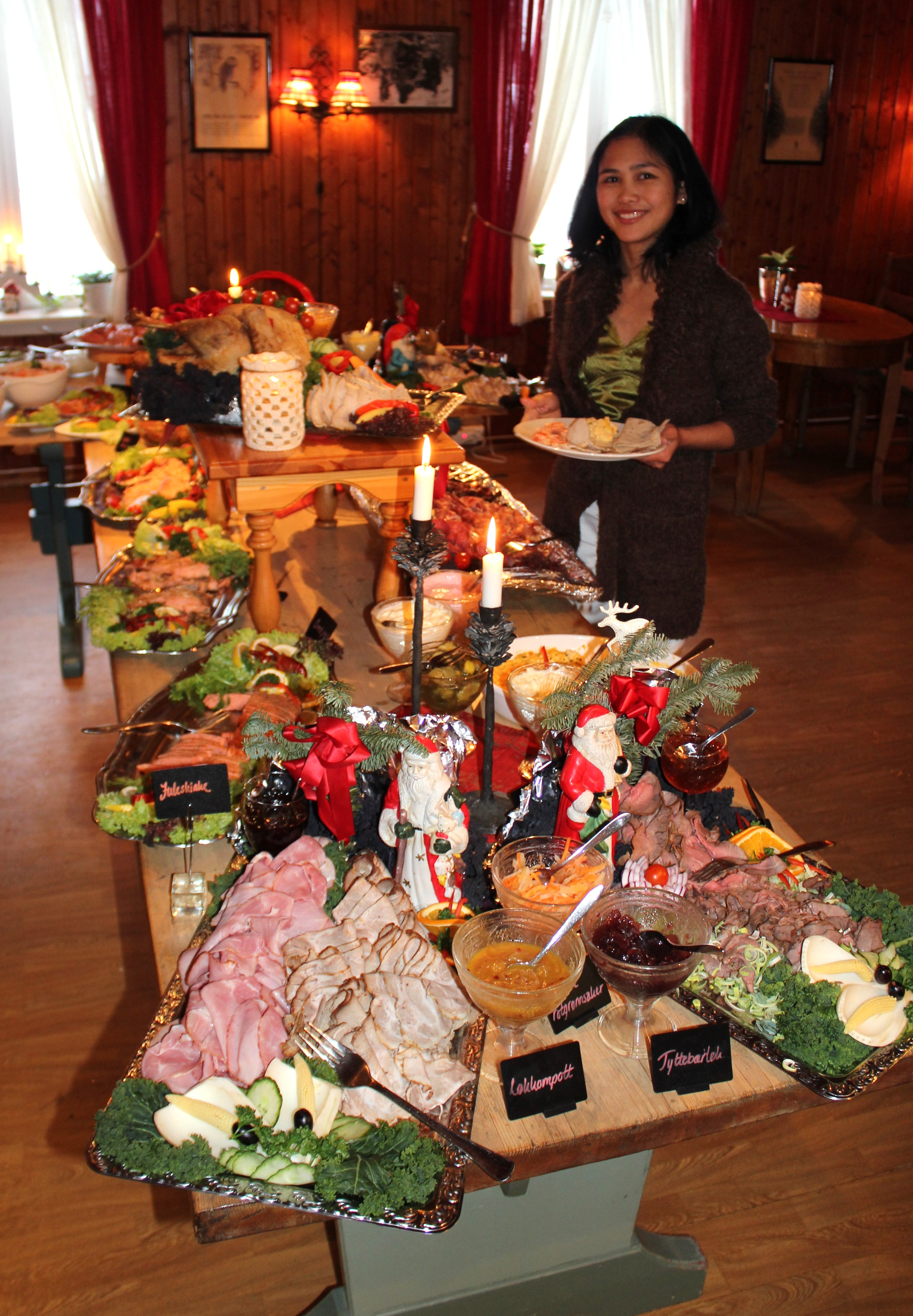 Norwegian Christmas table.